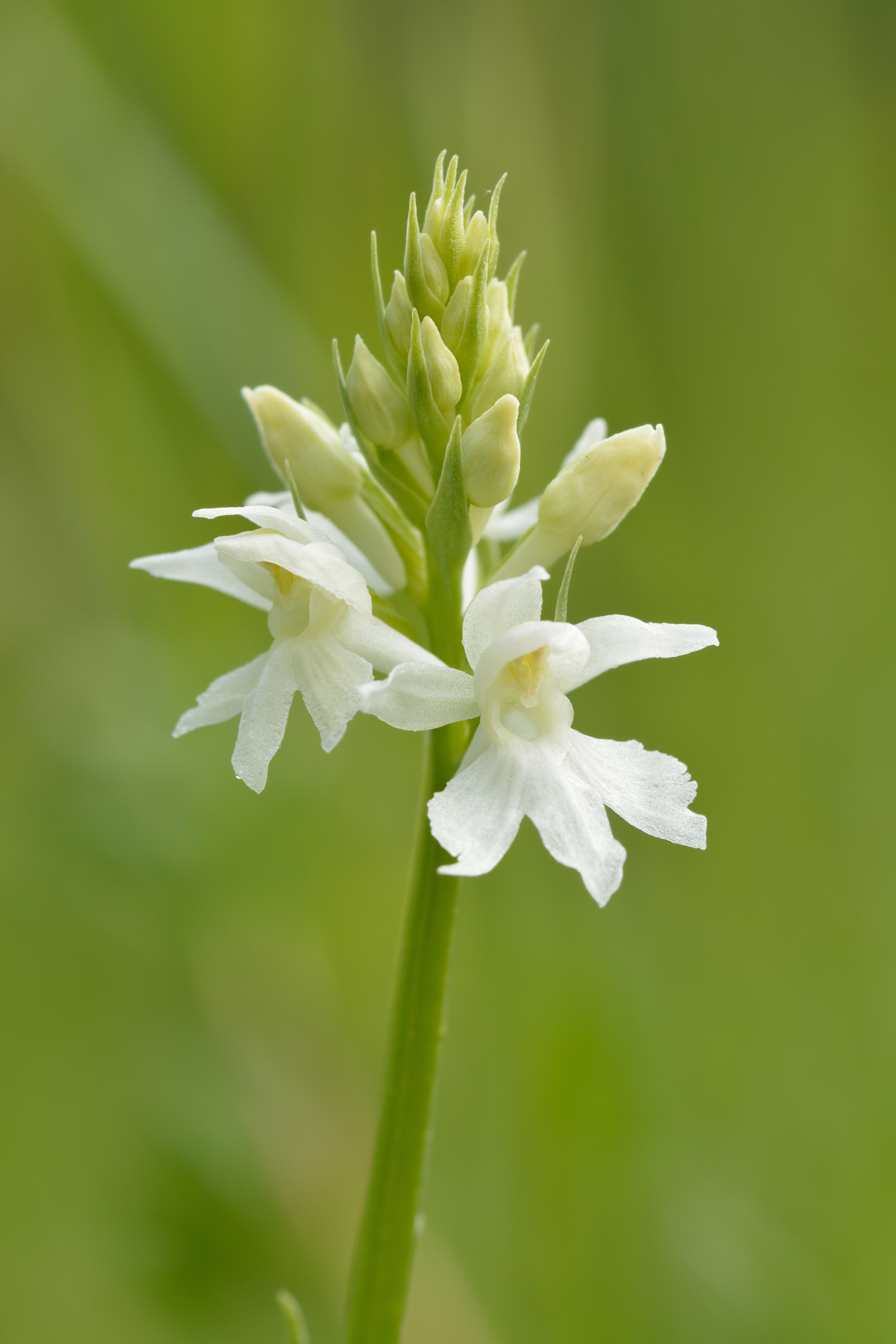 White-flowered common spotted orchid (Dactylorhiza fuchsii). Natural habitat (alvar) in Käesalu, Northwestern Estonia.